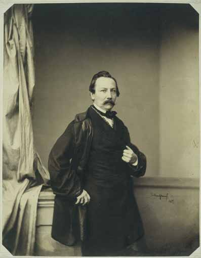 The german-russian painter Alexander von Kotzebue / Александр Евстафиевич Коцебу (1815-1889)